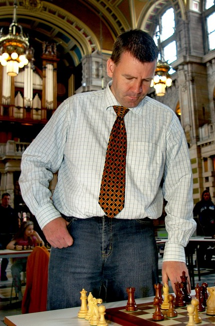 GM Jacob Aagaard Simultaneous at the Kelvingrove.